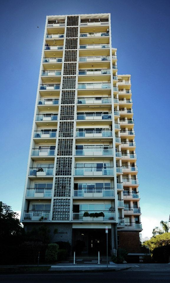 Photograph of Torbreck Home Units, Brisbane (Australia). Taken from Dornoch Terrace in Highgate Hill. 2012.